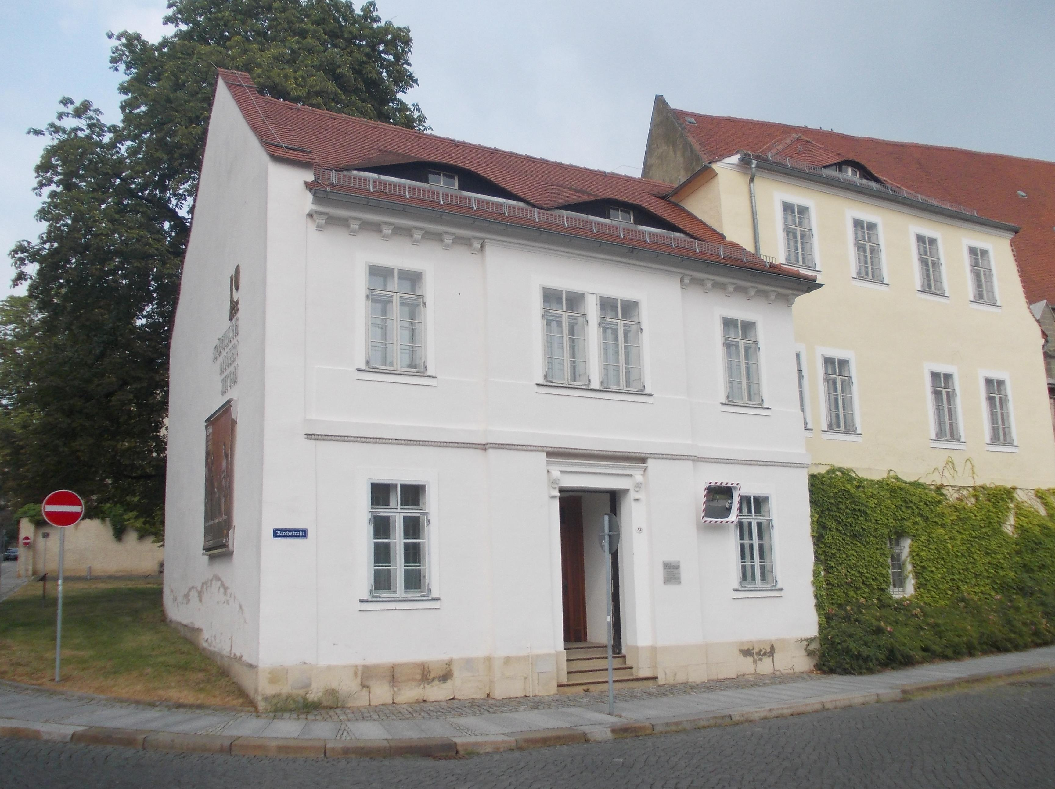 No. 13, Kirchstrasse in Zittau (Görlitz district, Saxony)